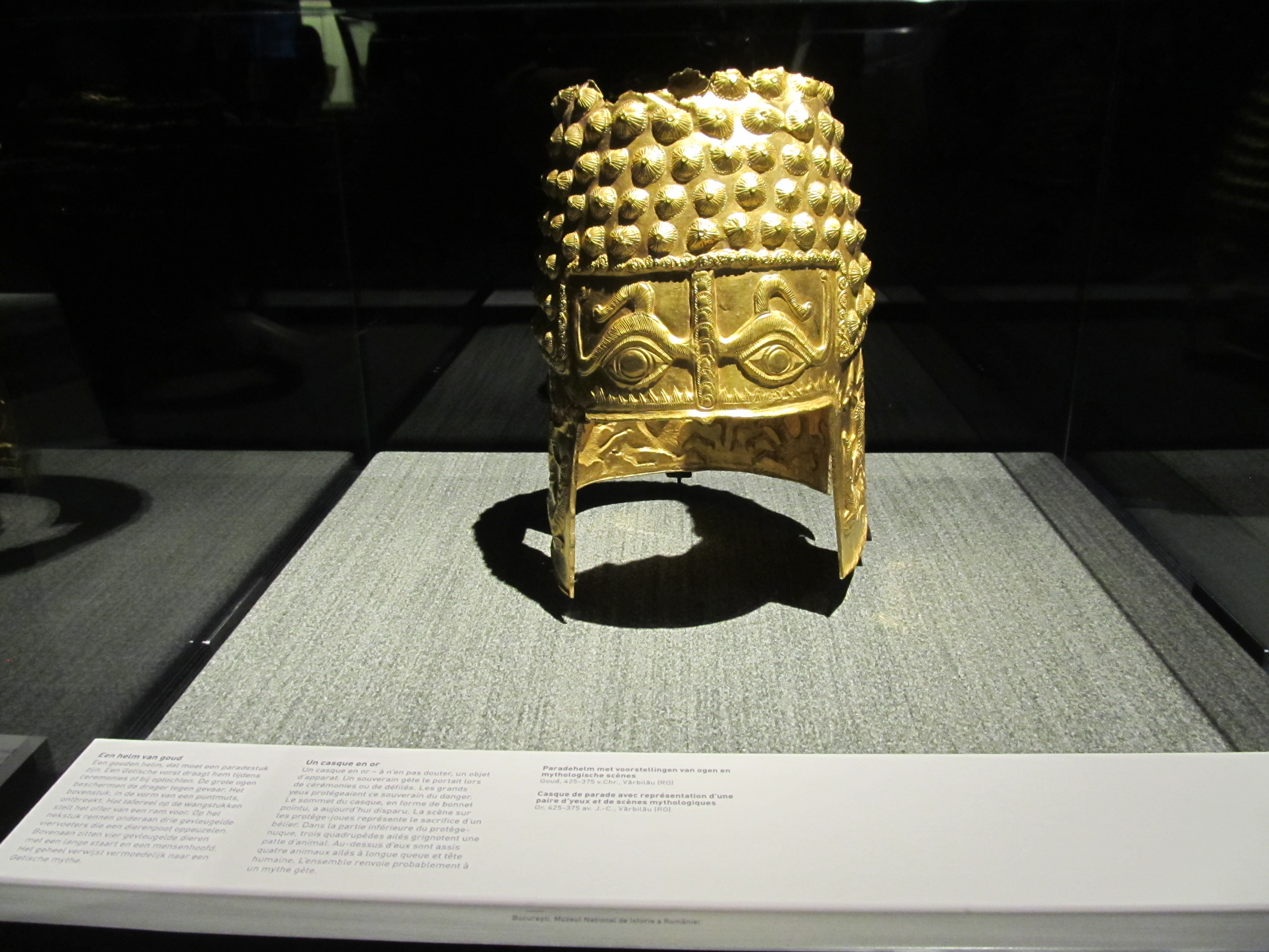 The Golden Helmet of Coțofenești on display at the Gallo-Romeins Museum in Tongeren, Belgium, during the cultural festival Europalia Romania 2019.